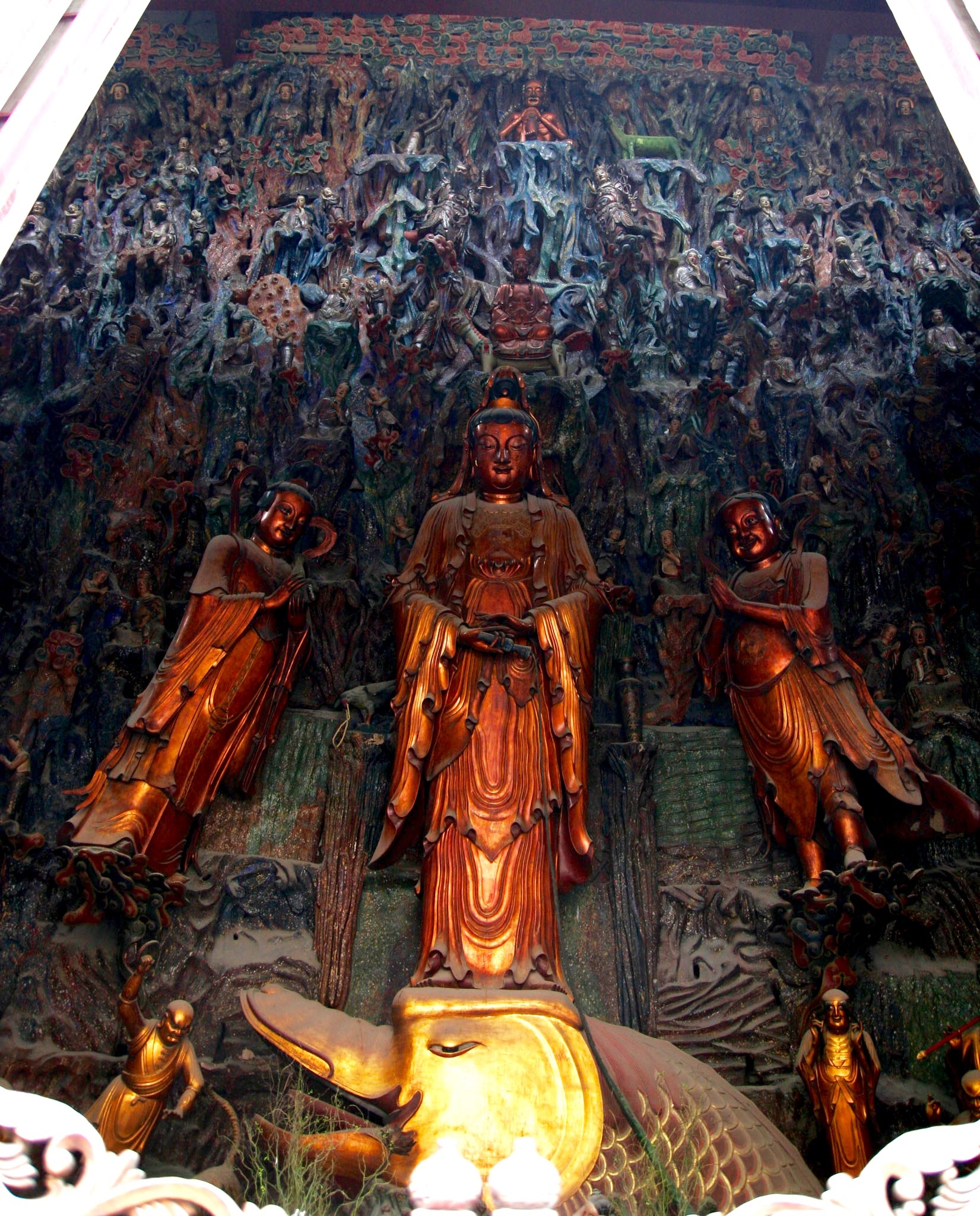 Guanyin Buddha and huge relief in the Grand Hall of the Great Sage of the Lingyin Temple close to Hangzhou, Zhejiang Province, China.